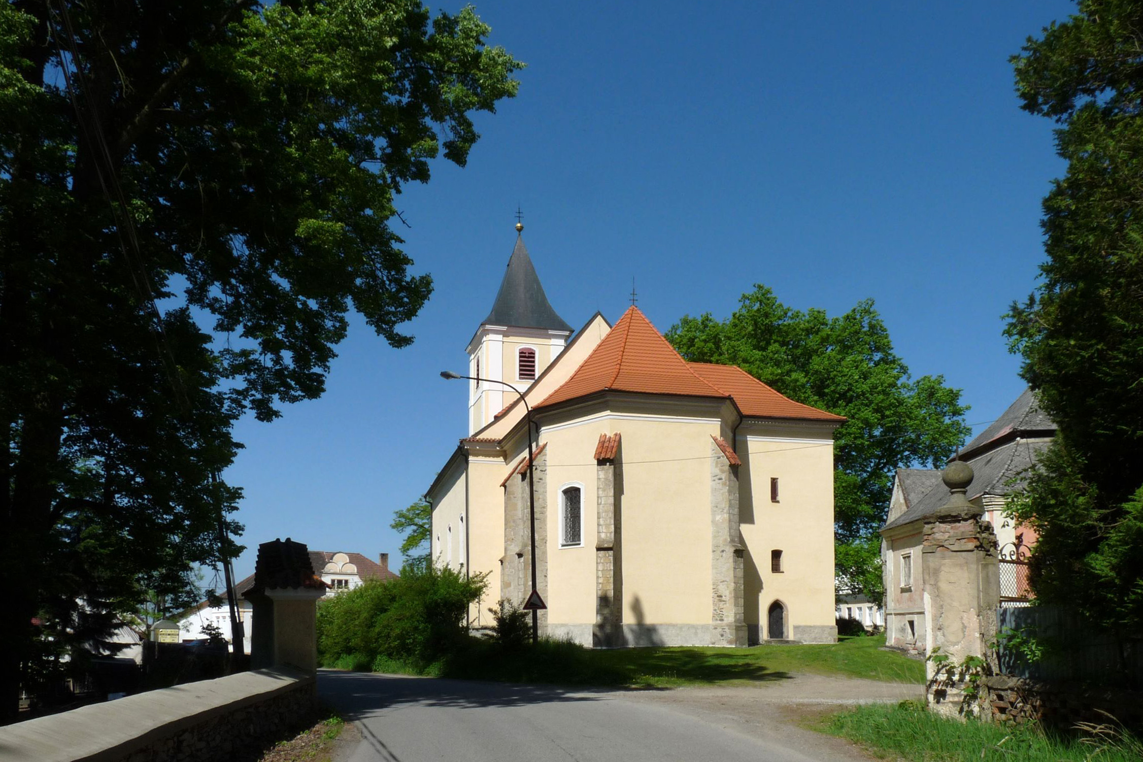 Church of the Assumption in the village of Hroby, Tábor District, South Bohemian Region, Czech Republic, part of the municipality of Radenín.